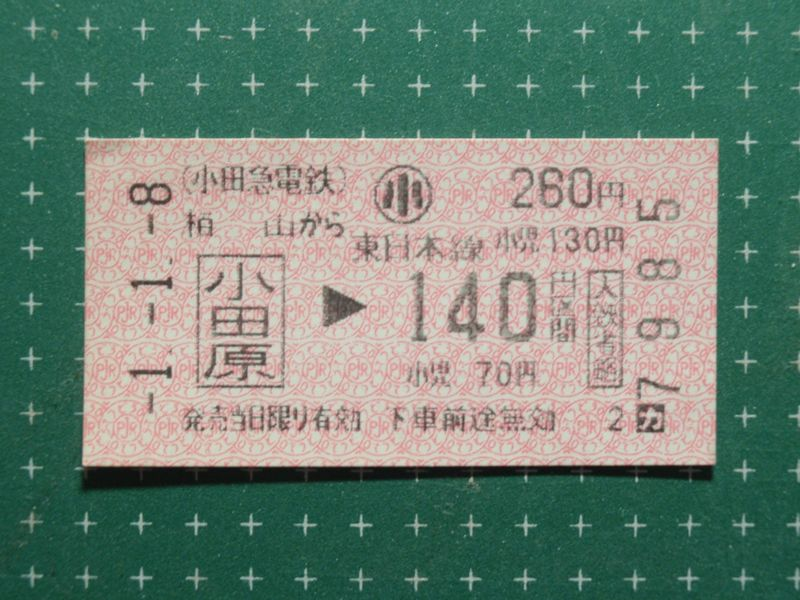 Ticket from Kayama via Odawara to 140yen